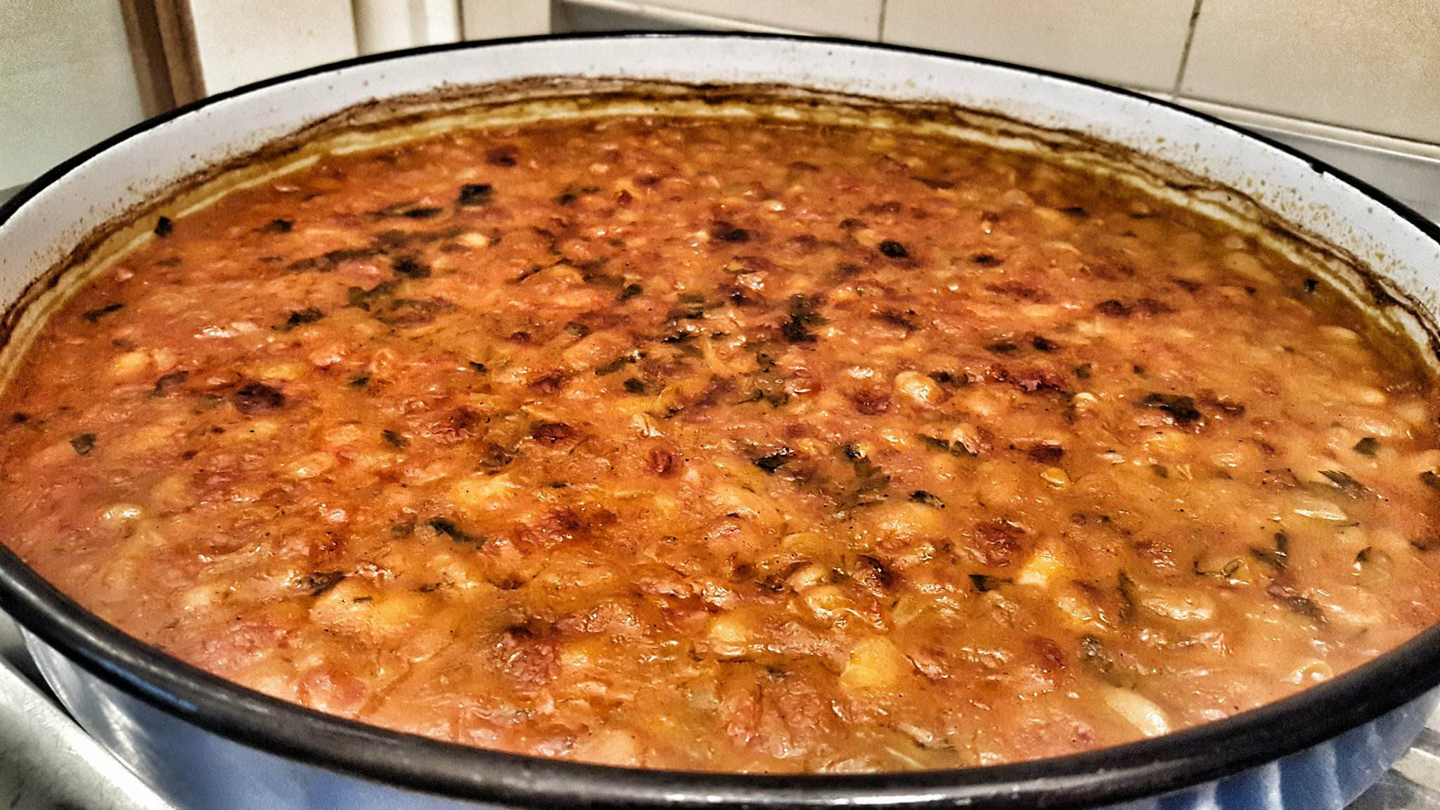 Traditionally prepared beans in an owen